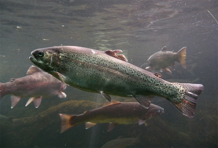 Oncorhynchus mykiss